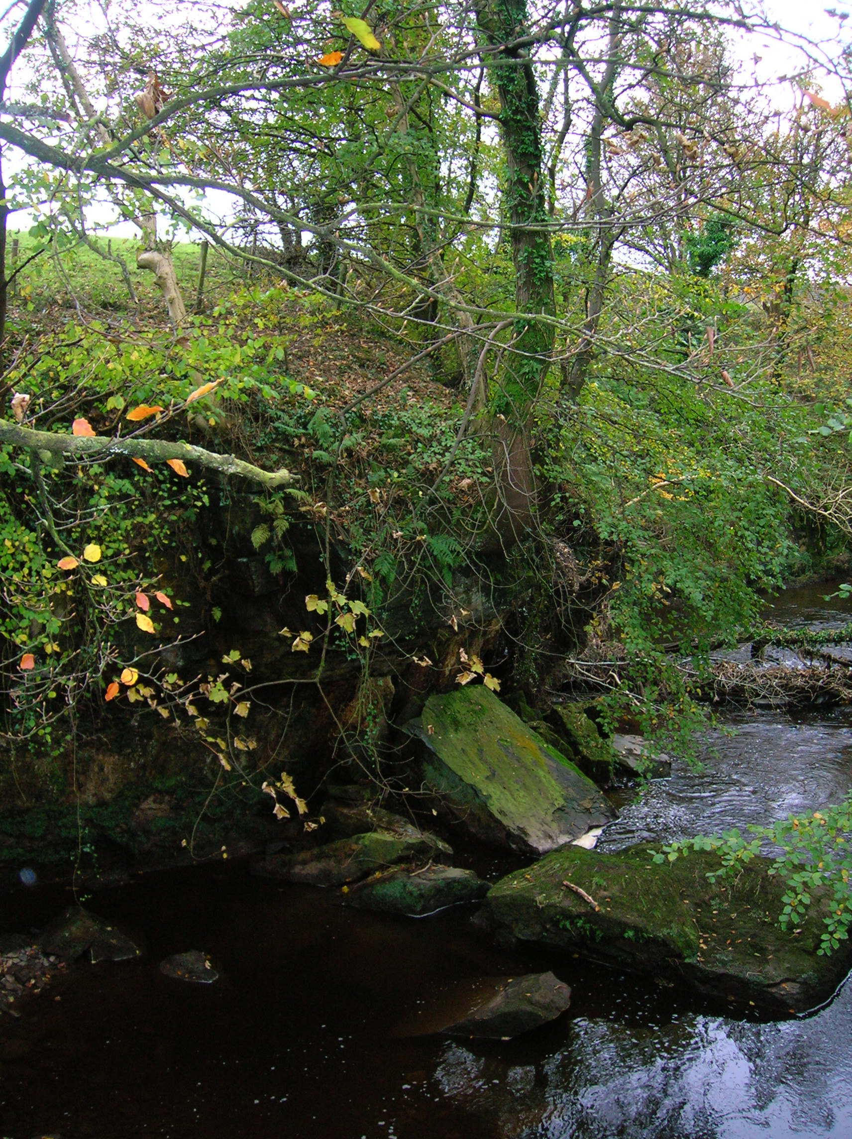 Peden's Pulpit, Caaf Water, North Ayrshire, Scotland